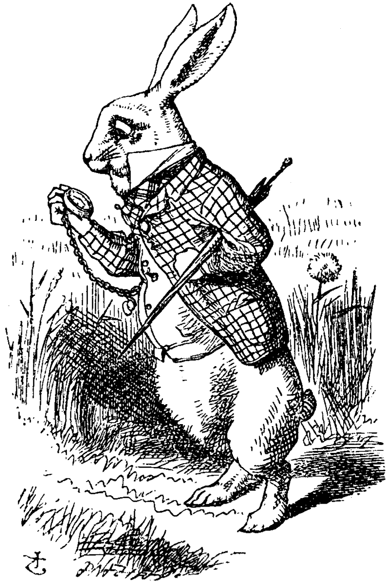 Original depiction of fictional anthropomorphic rabbit from the first chapter of Alice's Adventures in Wonderland